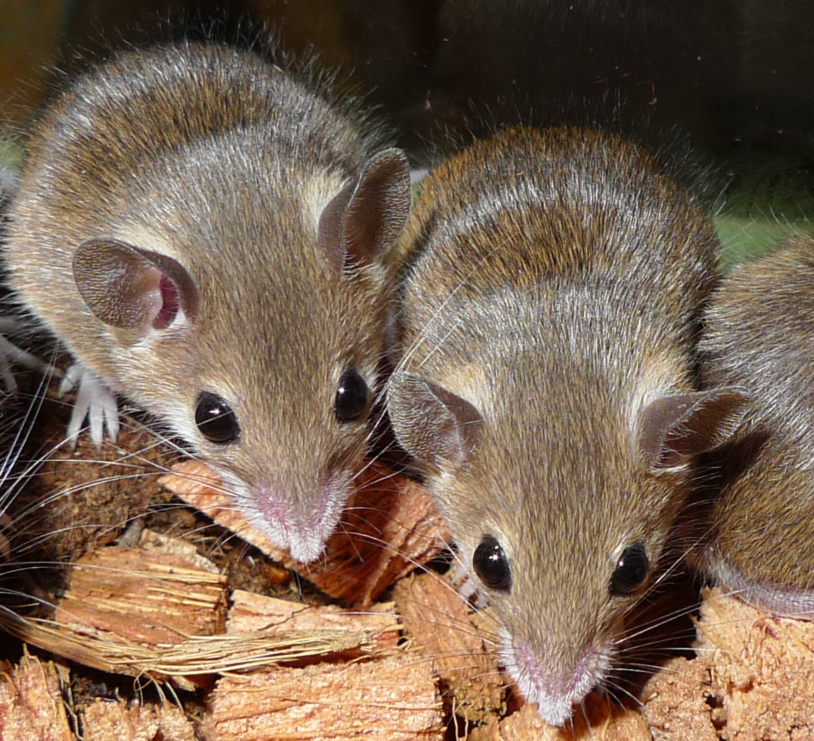 Mus mattheyi